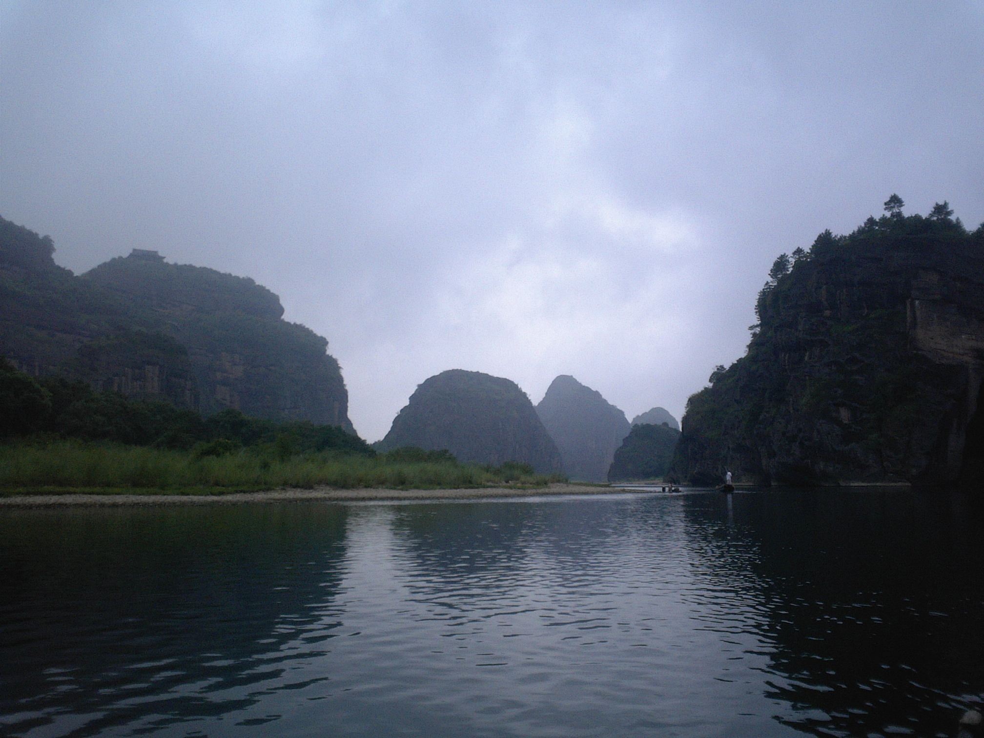 Mount Longhu. Author: 陈昀 (Chen Yun)